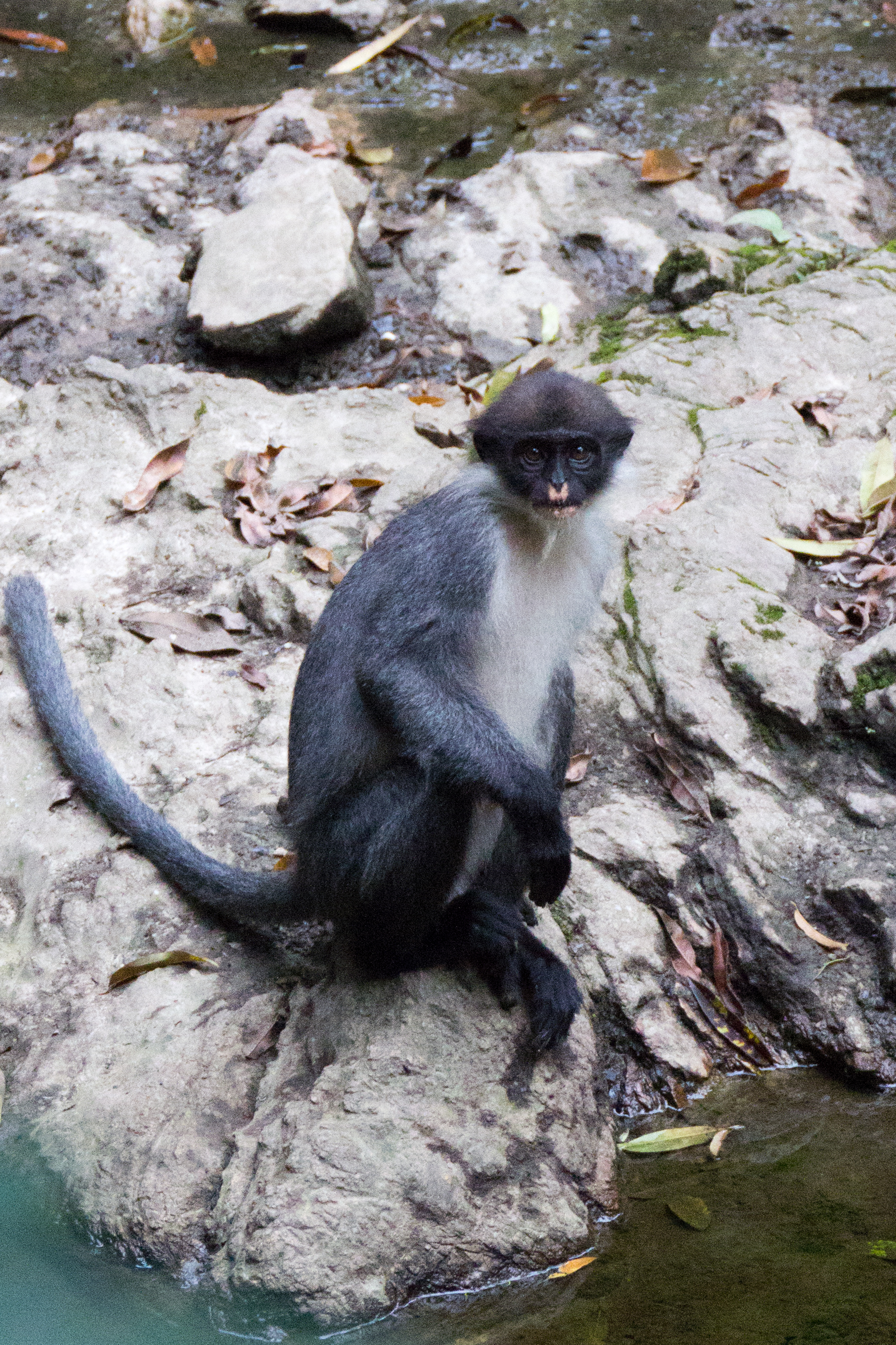 Miller's grizzled langur (Presbytis hosei canicrus). Original caption: Brent Loken, a PhD student in SFU's resource and environmental management program, discovered a rare monkey in the Bornean rainforest last June that many thought was extinct.